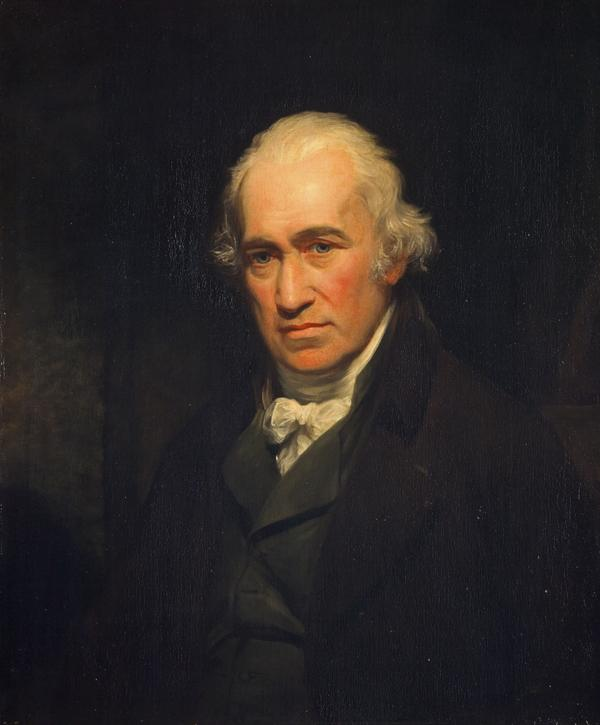 Portrait of James Watt. The portrait is a copy of a painting by Sir William Beechey. The original was exhibited at the Royal Academy in 1802 and was regarded a true likeness by Watt himself. Partridge painted this copy a few years later and secured additional sittings by Watt to enhance the resemblance.